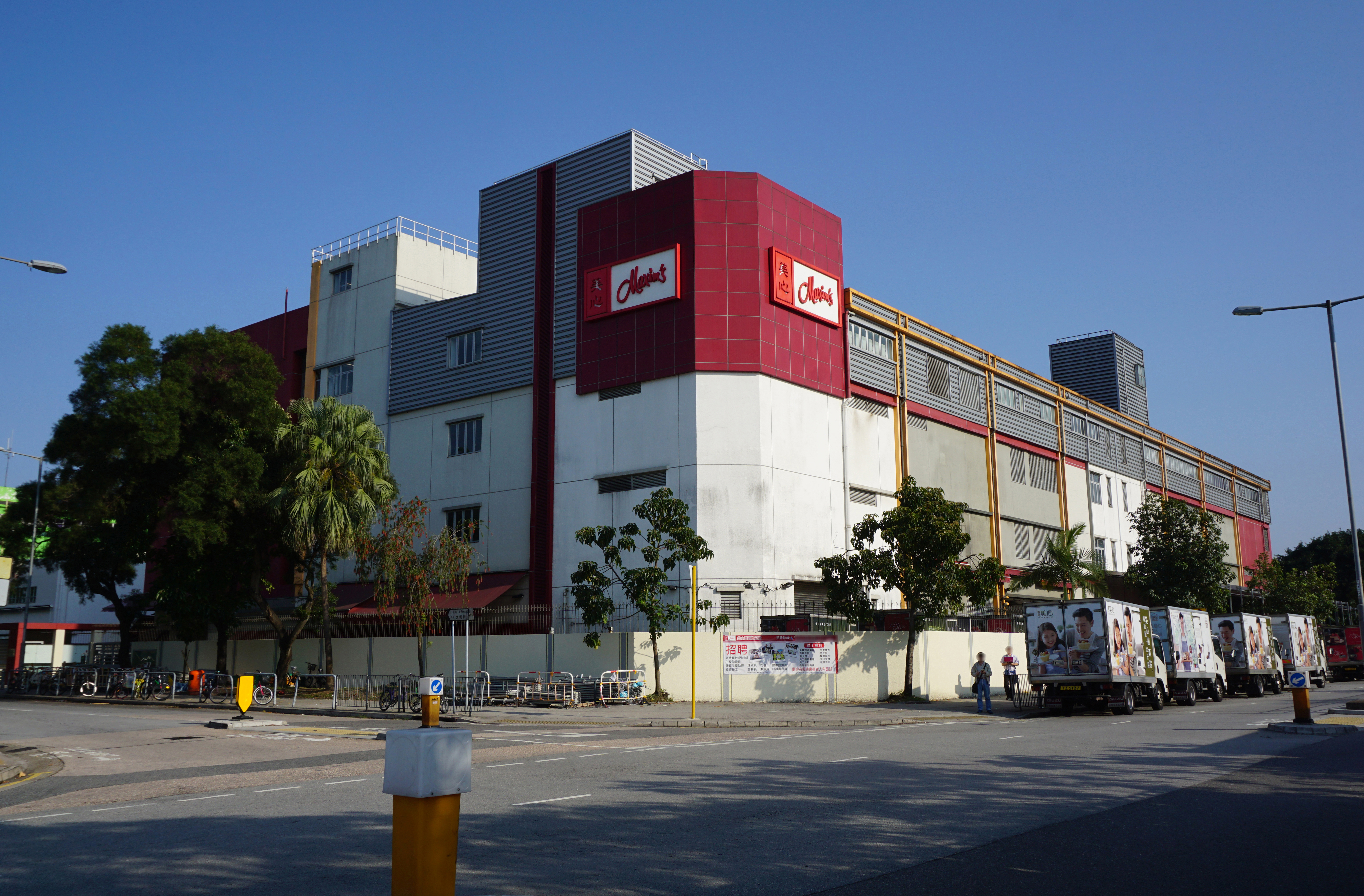 Maxim's Food Factory 2 in Tai Po, Hong Kong.